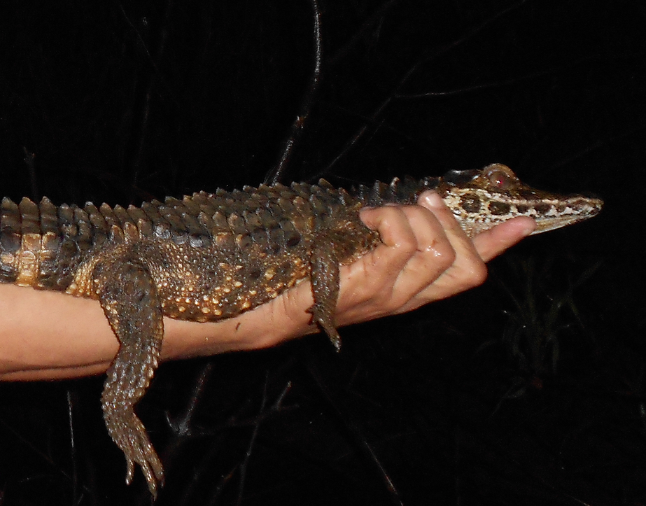 Lagarto on the Reserve